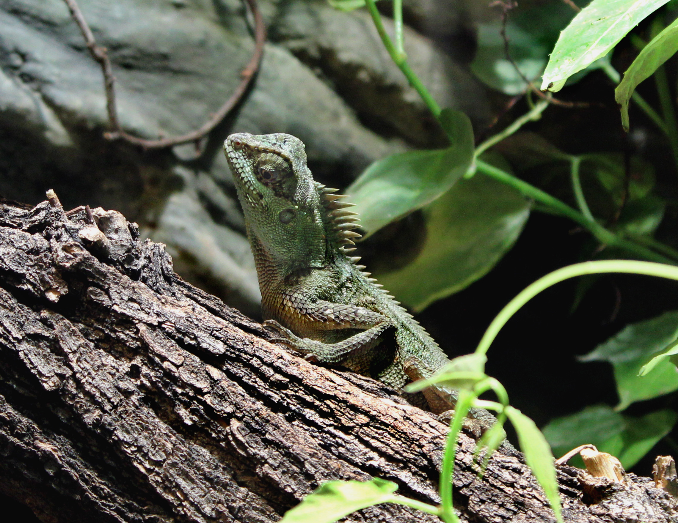 Mountain horned dragon Acanthosaura capra in Prague Zoo, Czech Republic